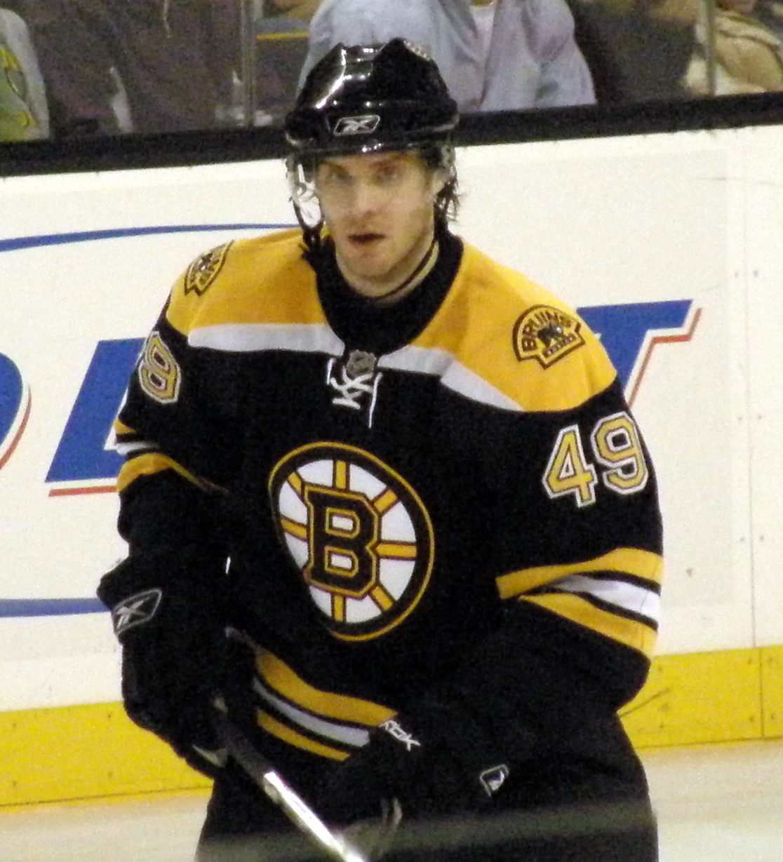 #49 Matt Lashoff (D)